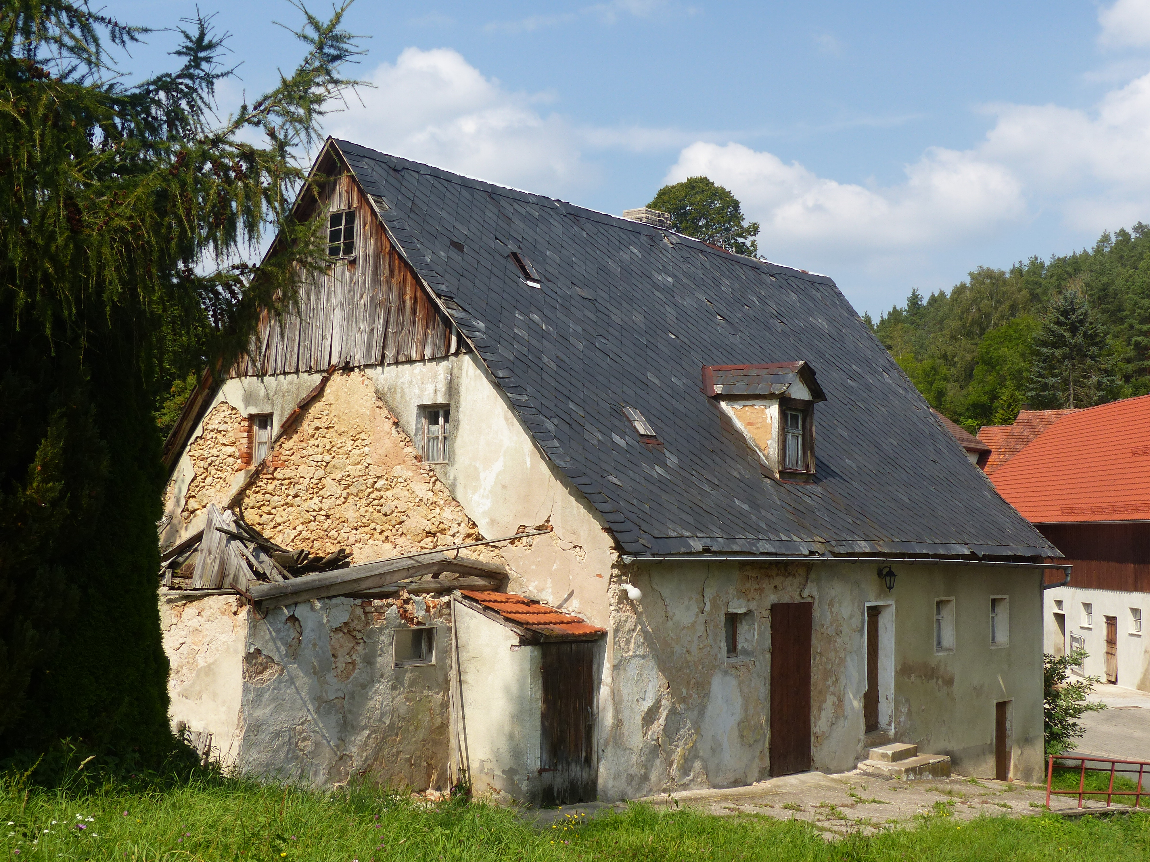 A farmhouse in Stadelhofen, a district of the municipality of Gößweinstein.